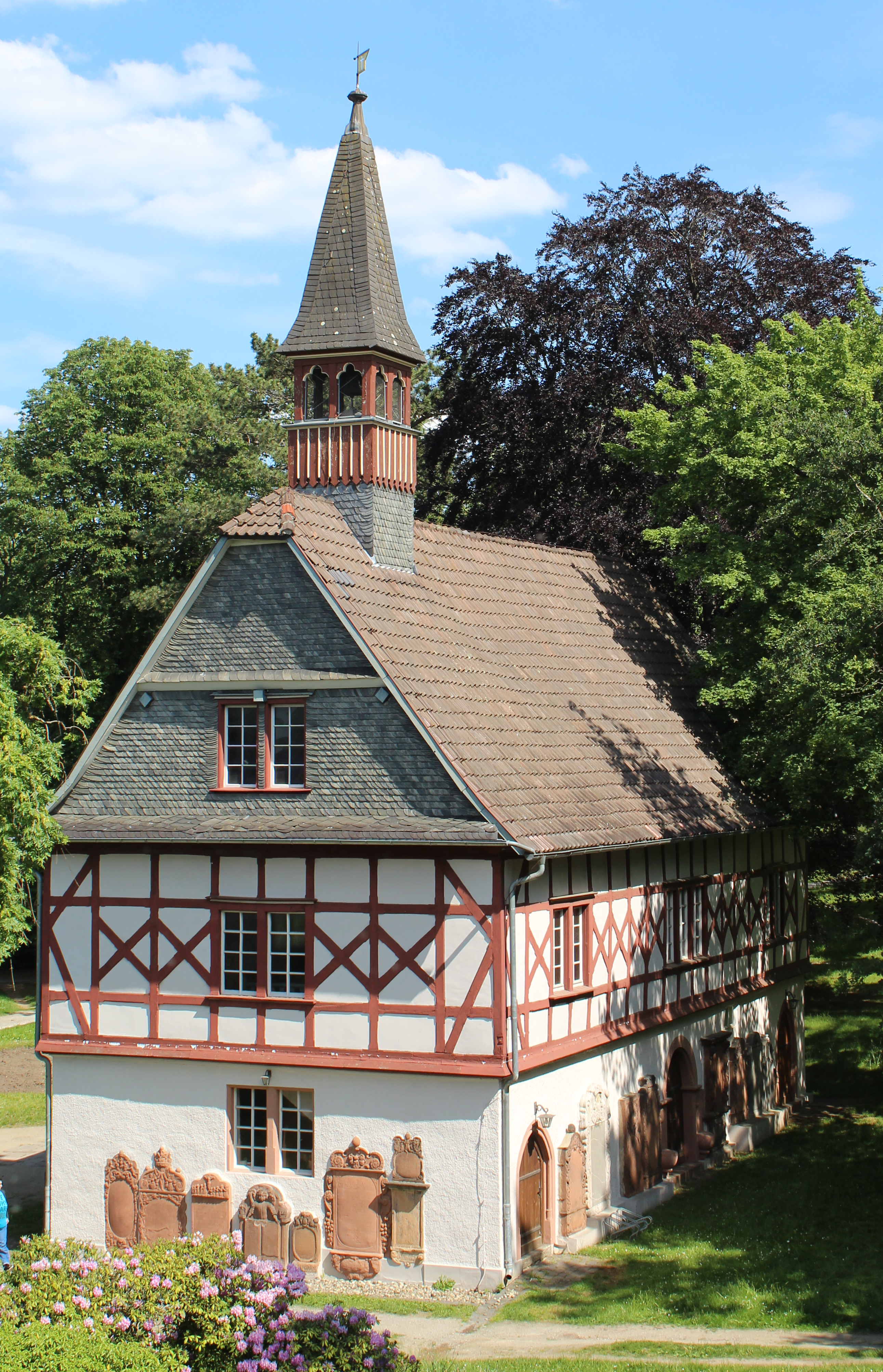 Chapel at Old Cemetery, Gießen, Germany